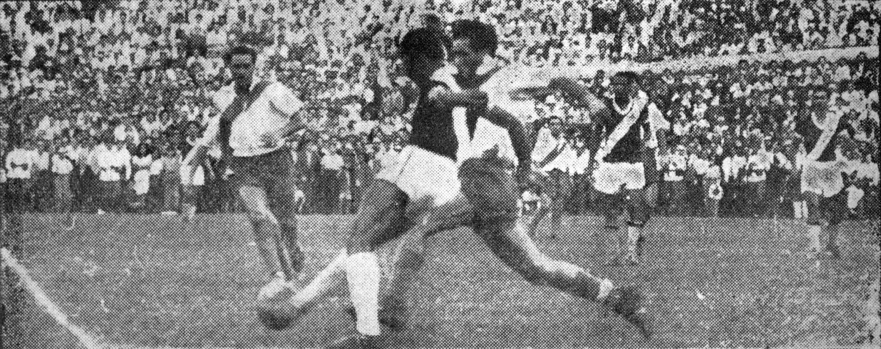 River Plate forward, Juan C. Muñoz with the ball while Brazilian defender tries to stop him. Behind them, José M. Moreno watches the scene.